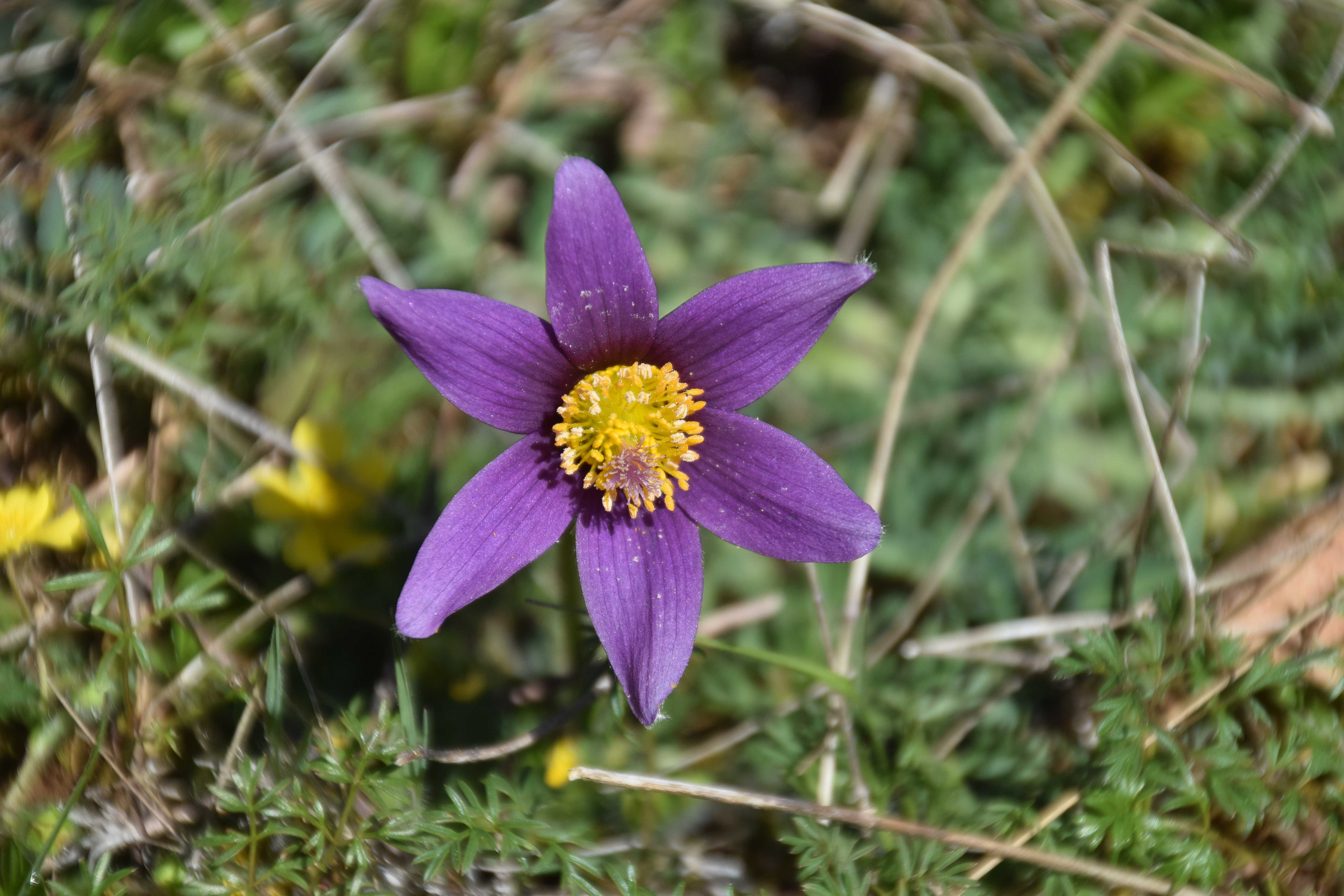 Anemone pulsatilla in Bezonnes, Rodelle, Aveyron, France